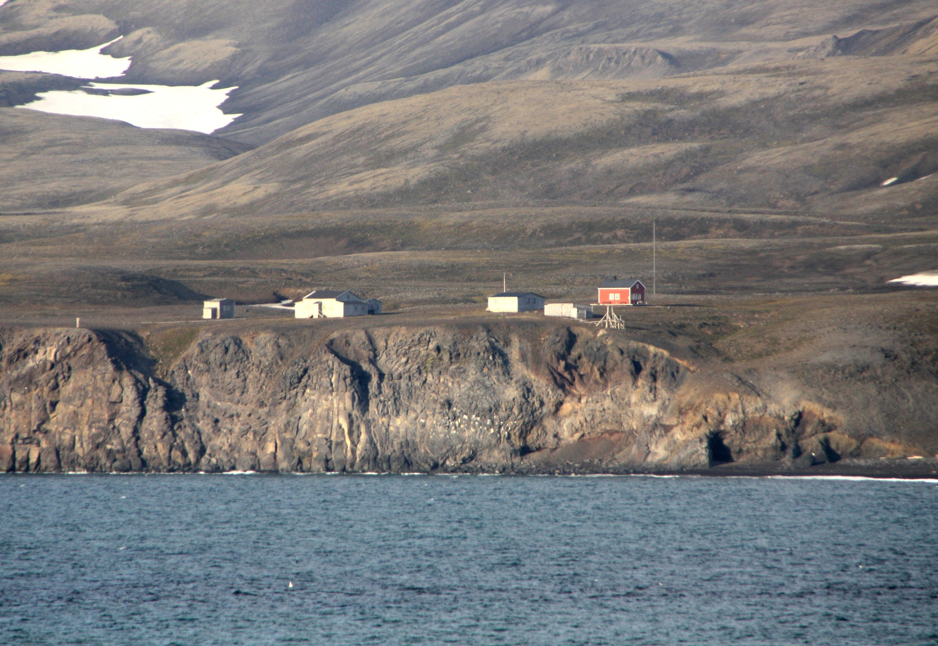 The old meteorological station (Gamle Metten) on Jan Mayen, Norway.